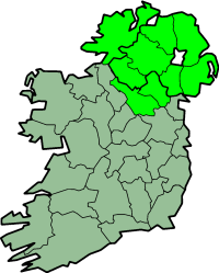 map of Ulster 08:09, 5 February 2004 Morwen 200x249 (28005 bytes) (map)